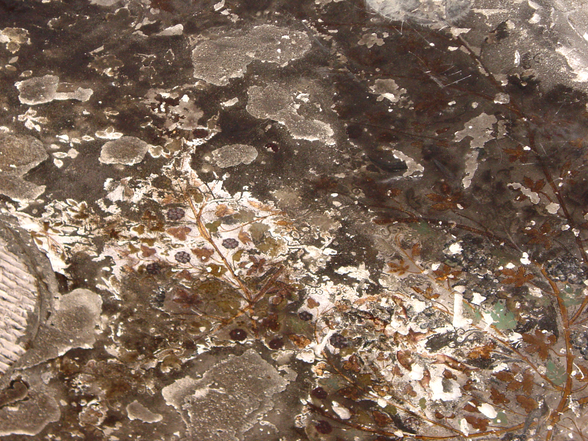 The ceiling is decorated with flowering vines, in Hellenistic Alexandrian style. In the lower right corner of the photo, a little squirrel scampers through the foliage next to a green leaf.